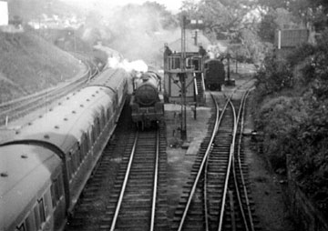 Largs railway station looking south towards West Kilbride